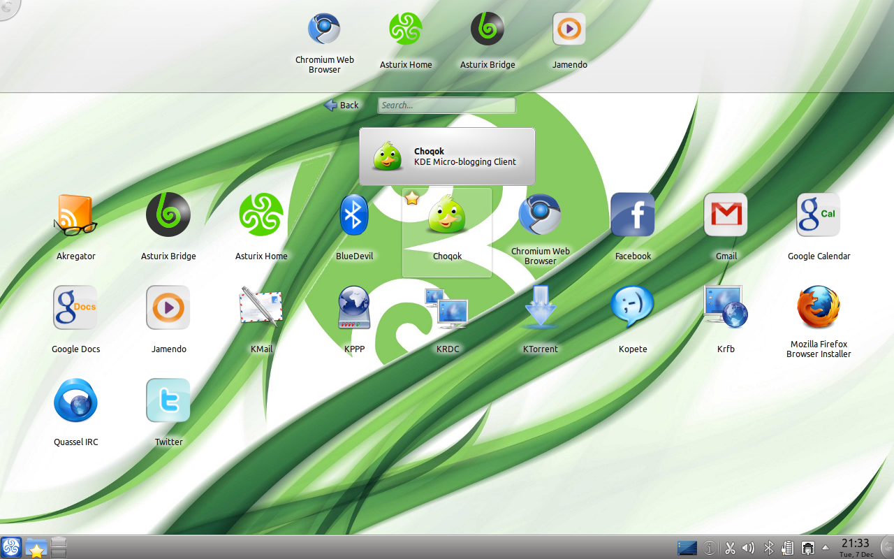 Snapshot of Asturix 3 with netbook launcher